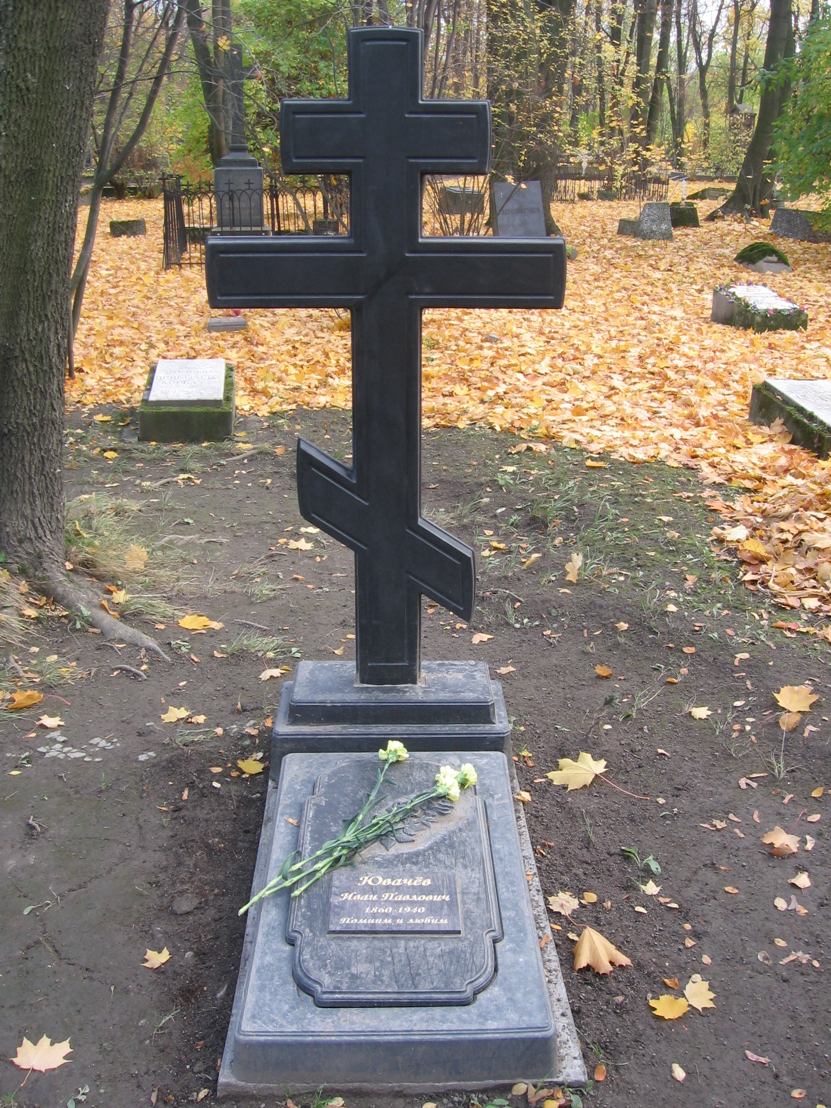 Grave of Ivan Yuvachov